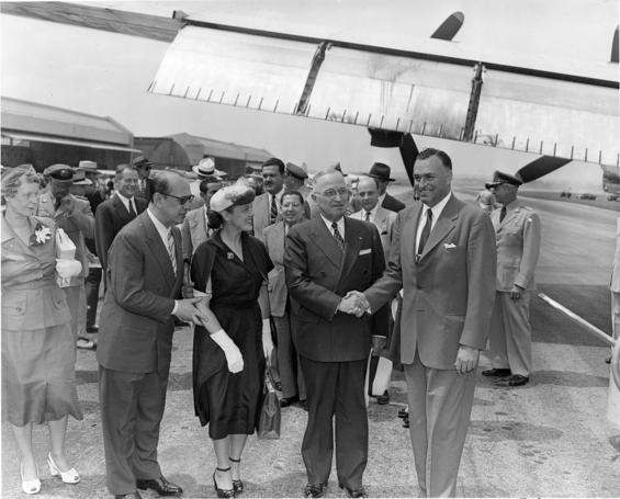 President Harry S. Truman (second from right) greets President Galo Plaza of Ecuador (right) upon the latter's arrival at Washington National Airport. With President Plaza is his wife, Rosario Pallares Plaza (third from right). All others are unidentified.